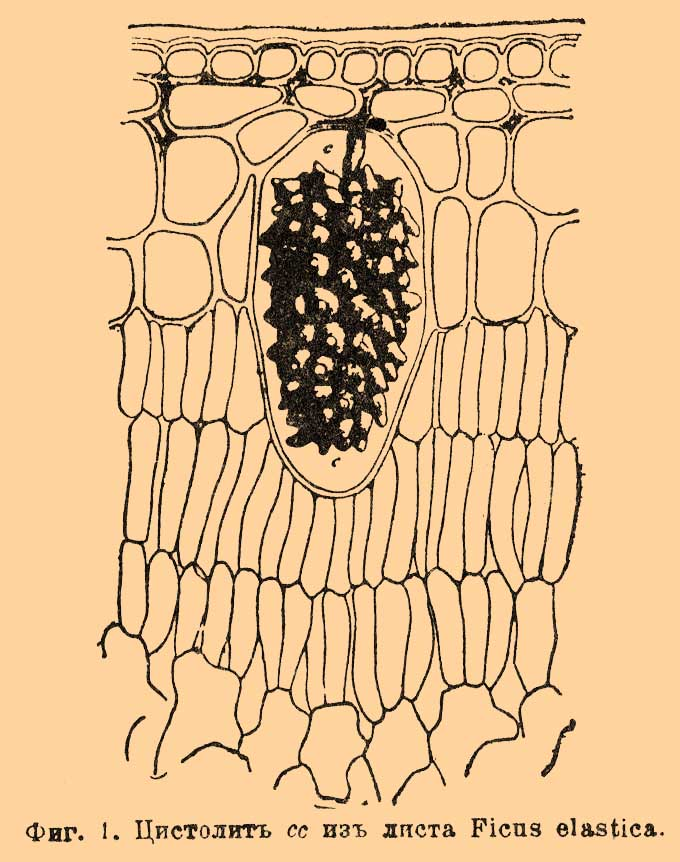 Illustration from Brockhaus and Efron Encyclopedic Dictionary (1890—1907). Cystolith from leaf of Ficus elastica